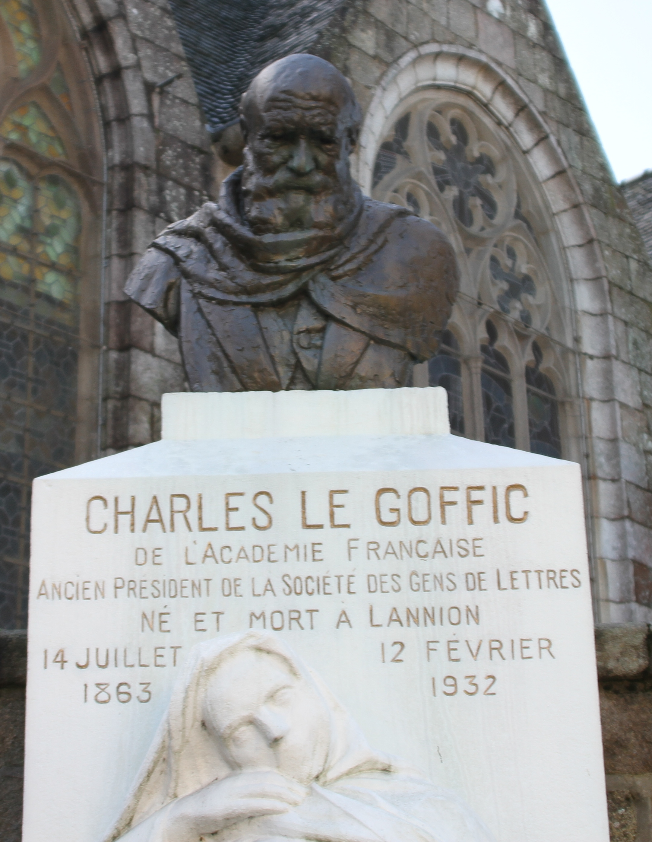 Monument for Le Goffic in Lannion, Brittany